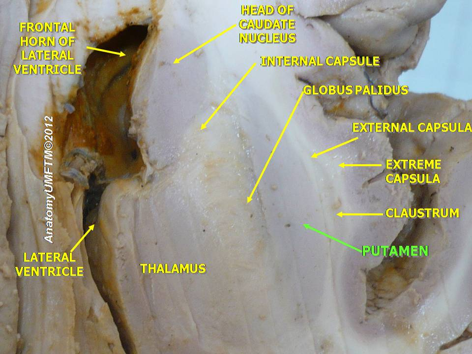 Anatomical dissection